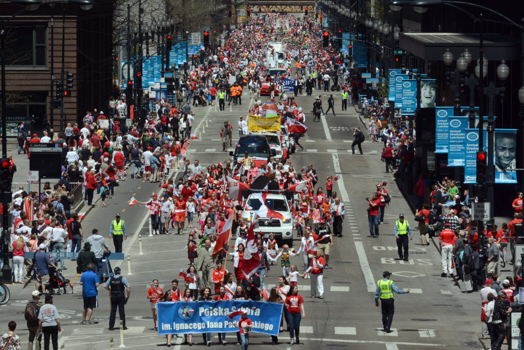 This is the Polish Day Parade in Chicago 2015.